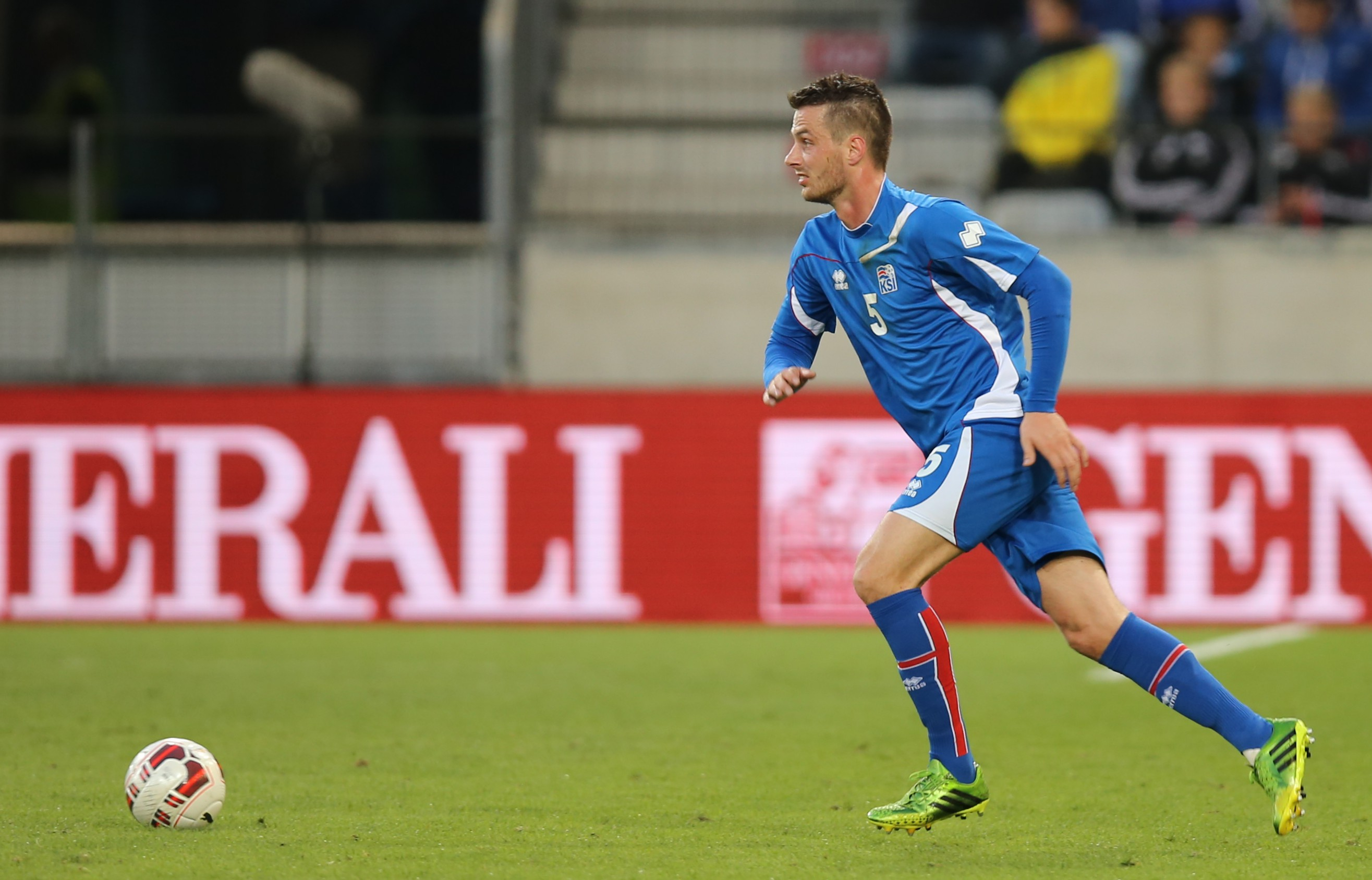 Austria - Iceland football match in Innsbruck, Austria on 2014-05-30. Austria in red, Iceland in blue.